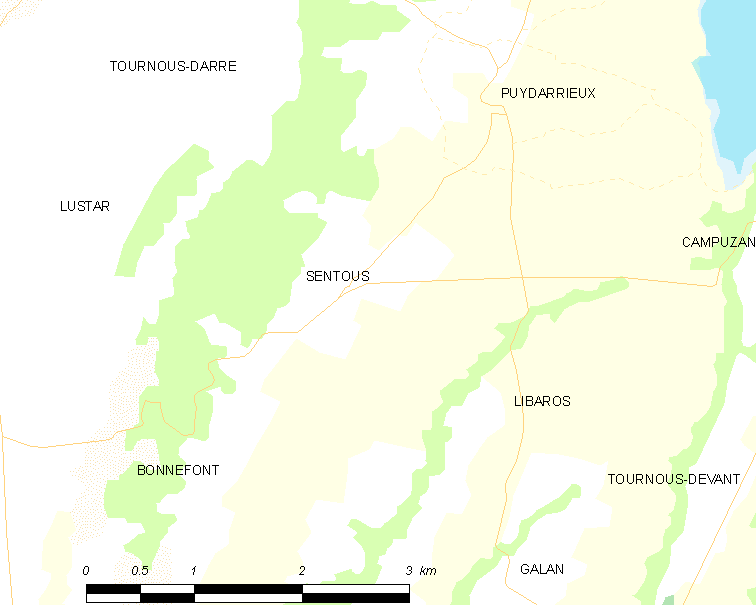 Map of French municipality